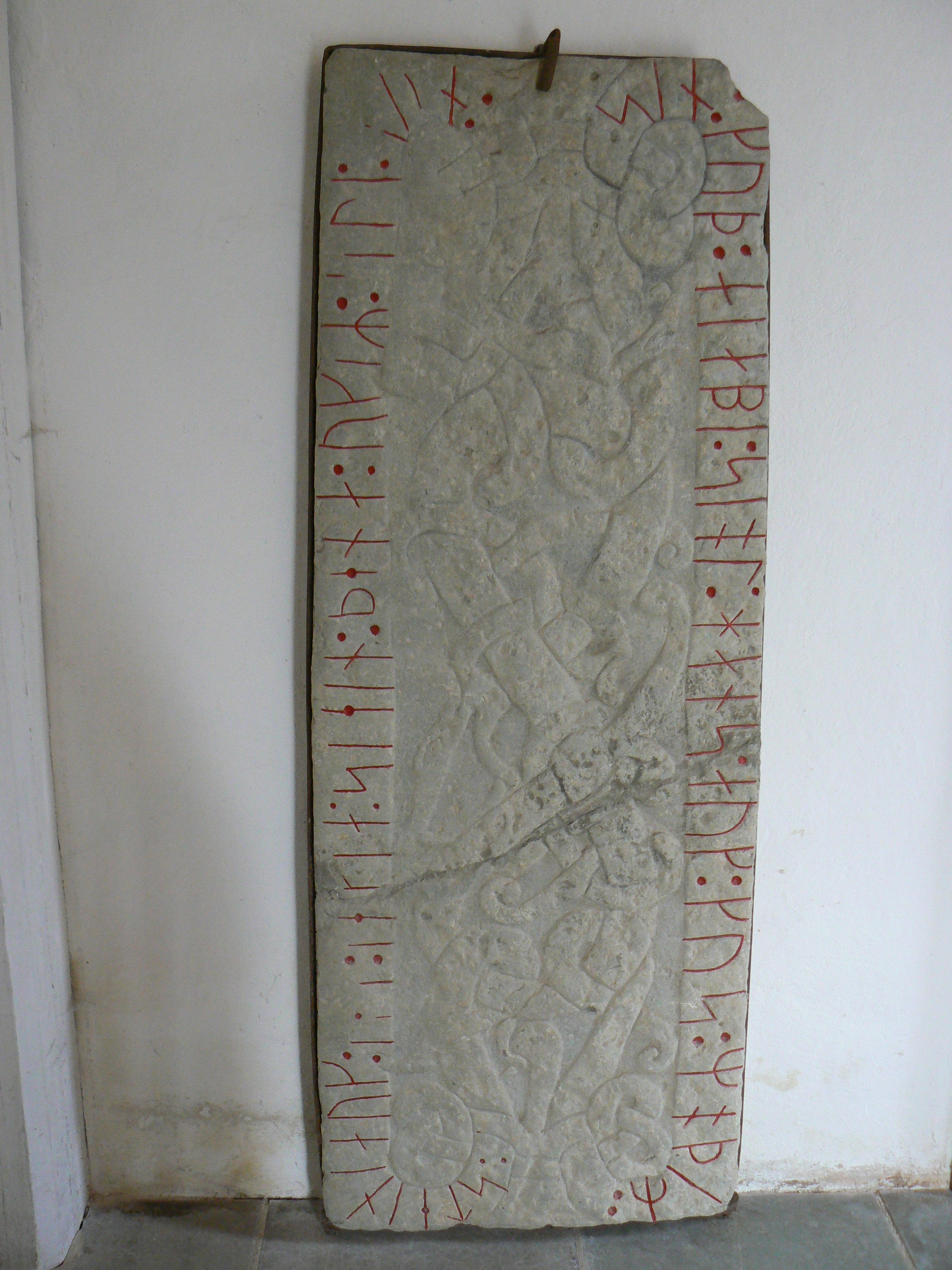 Östergötlands runinskrifter 213 ("Runic inscriptions of Östergötland 213"), a stone coffin cover piece with runes and ornaments, kept in Västerlösa church west of Linköping.